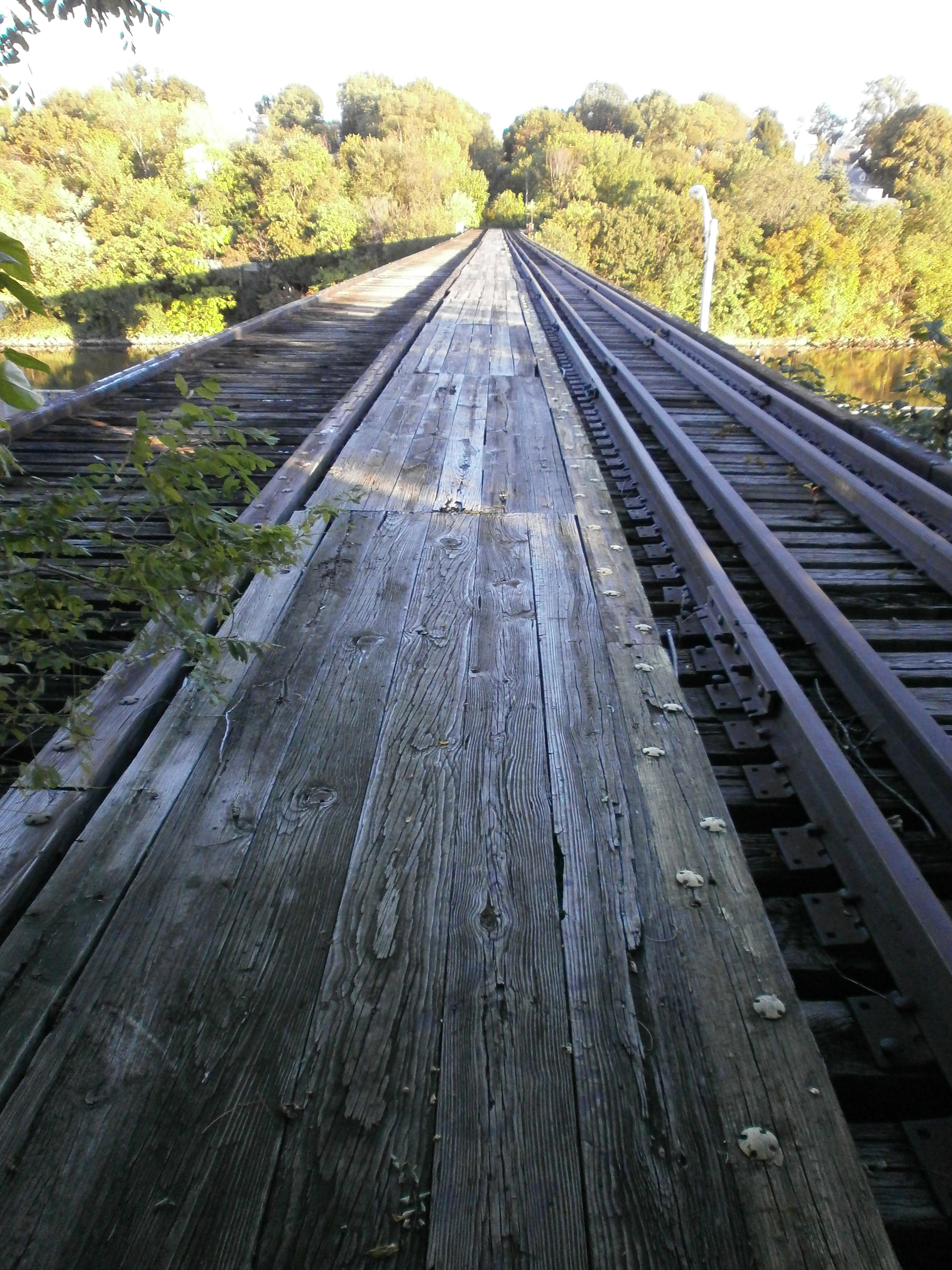 WR Draw over Passaic River from North Newark looking east to West Arlington Kearny